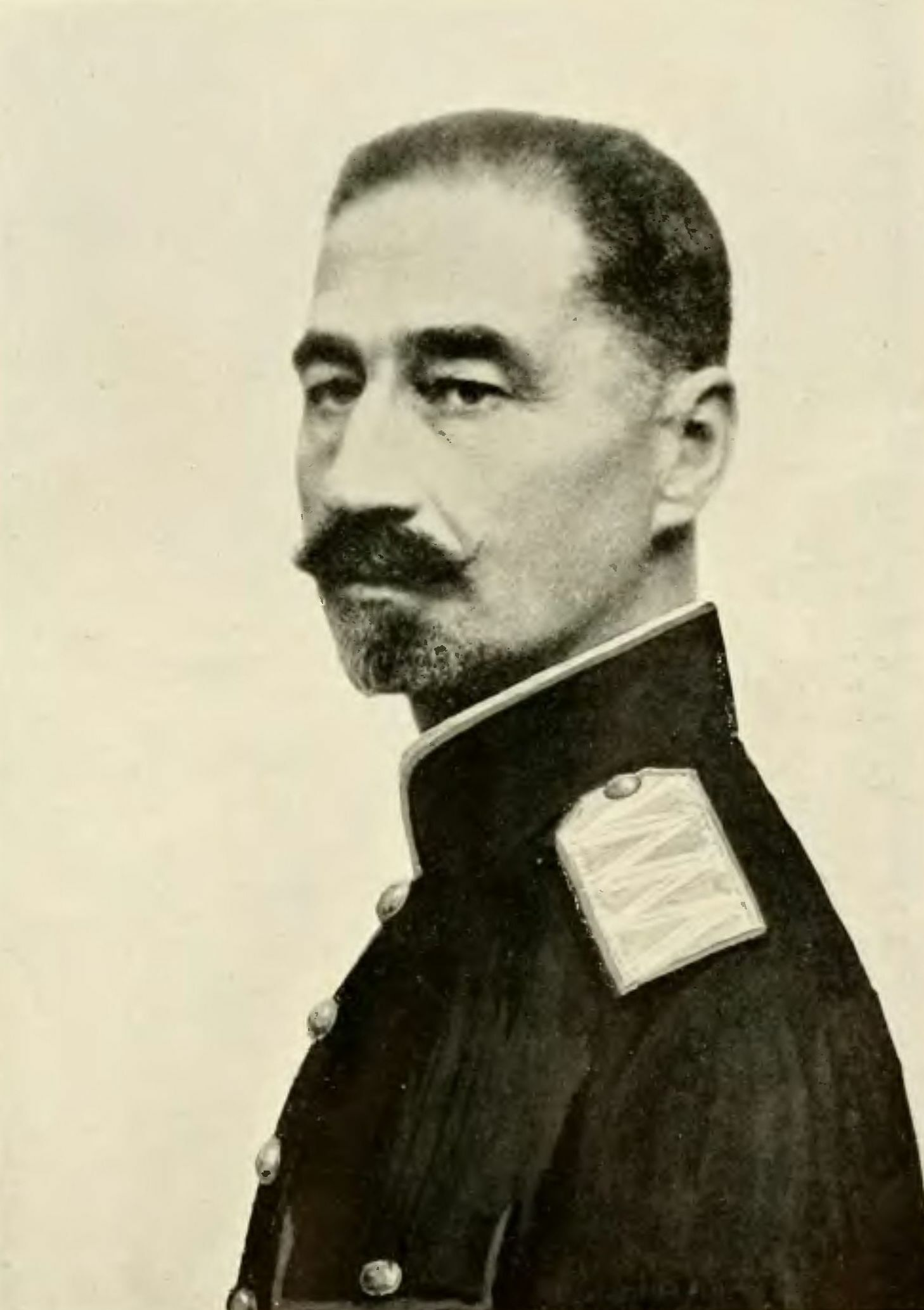 Erdeli, Ivan Georgievich